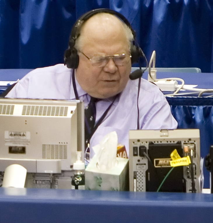 Verne Lundquist prepares to call an NCAA basketball tournament game for CBS in 2009 at the University of Dayton Arena.